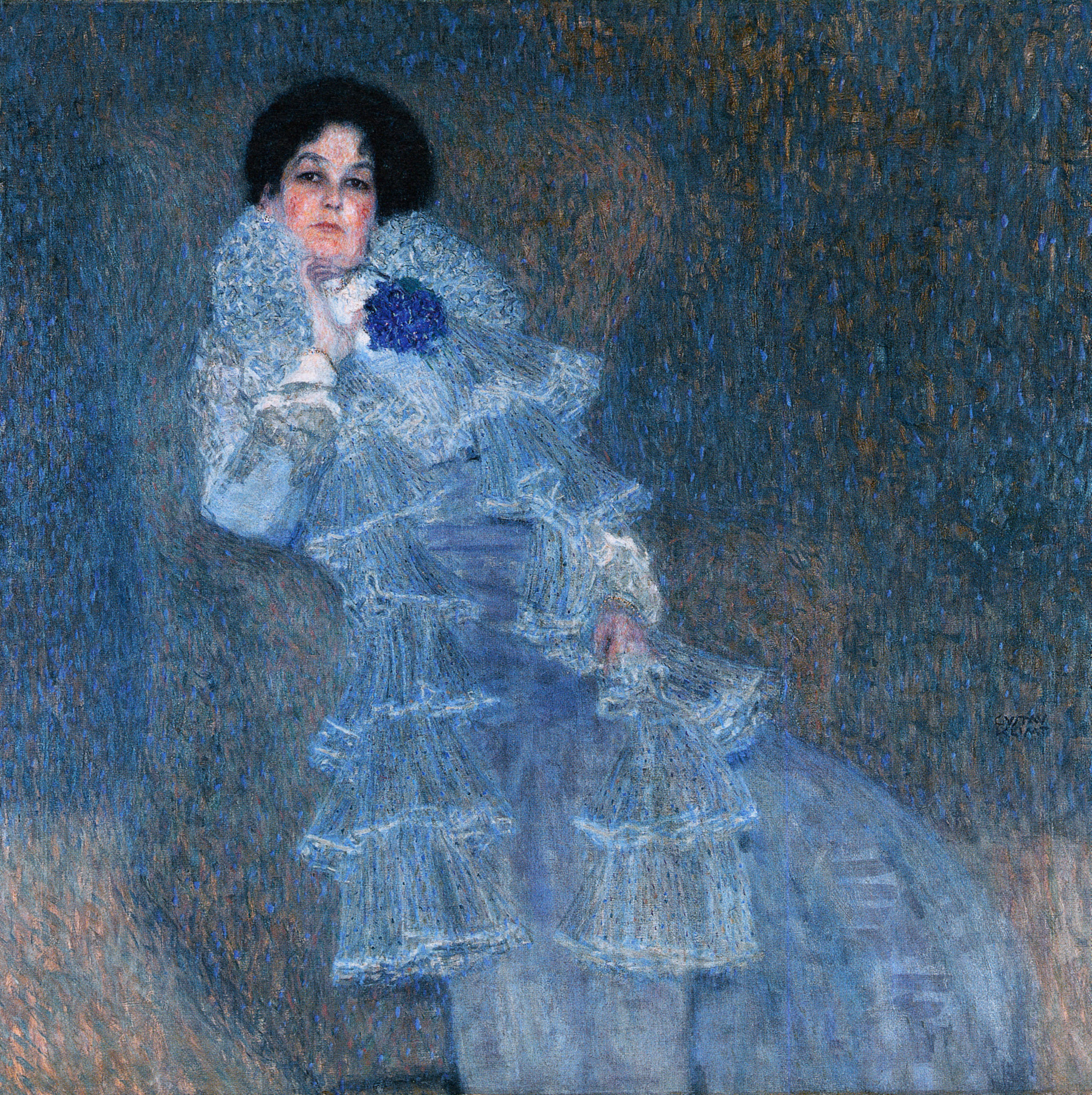 Portrait Marie Henneberg